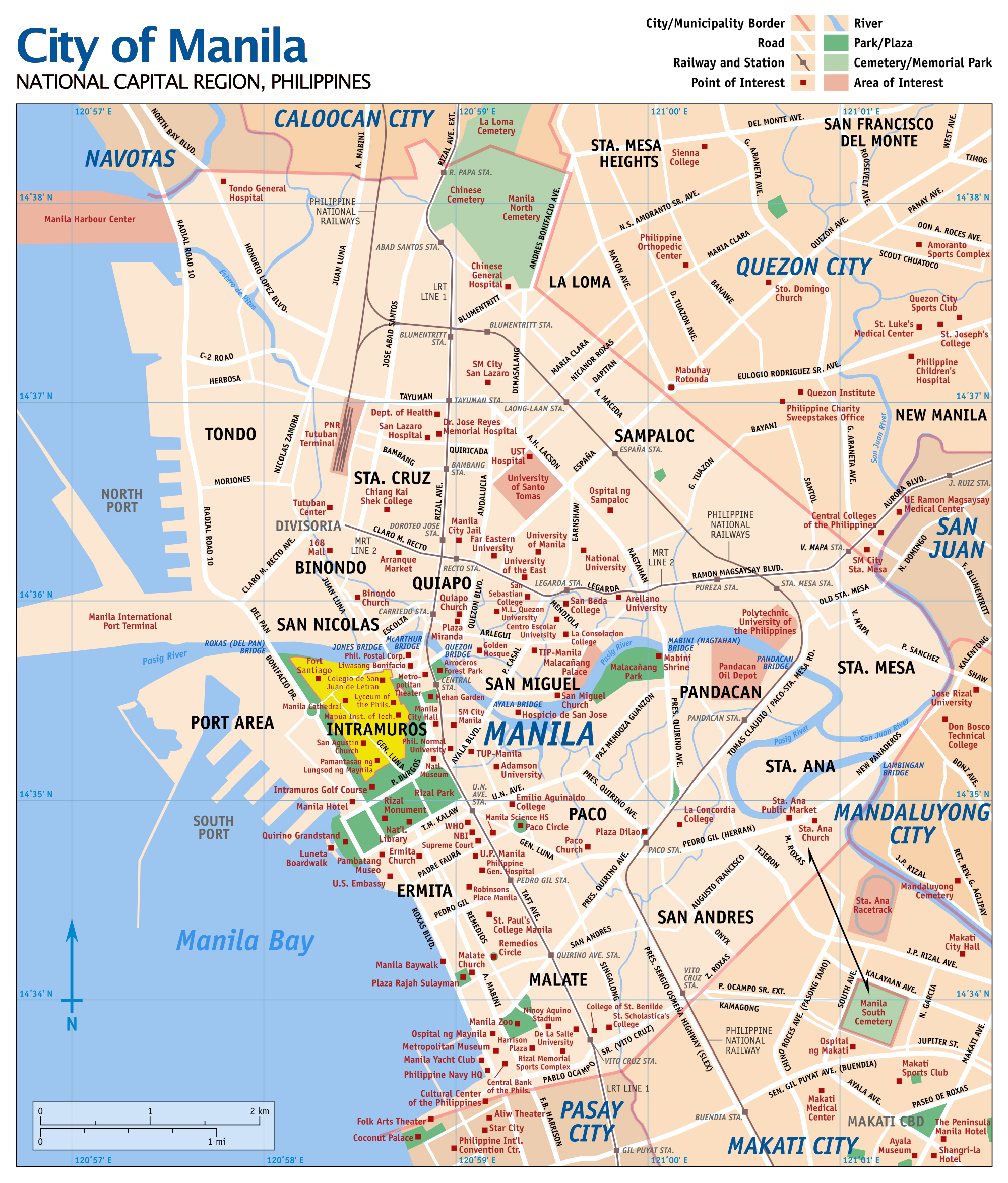 Map of Manila with Intramuros district highlighted in yellow.